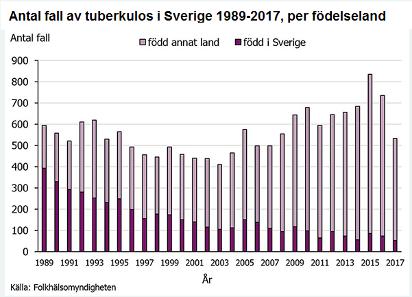 Public Health Agency of Sweden. Number of tuberculosis cases in Sweden per country of birth